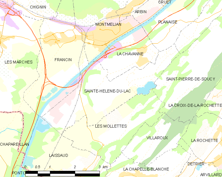 Map of French municipality